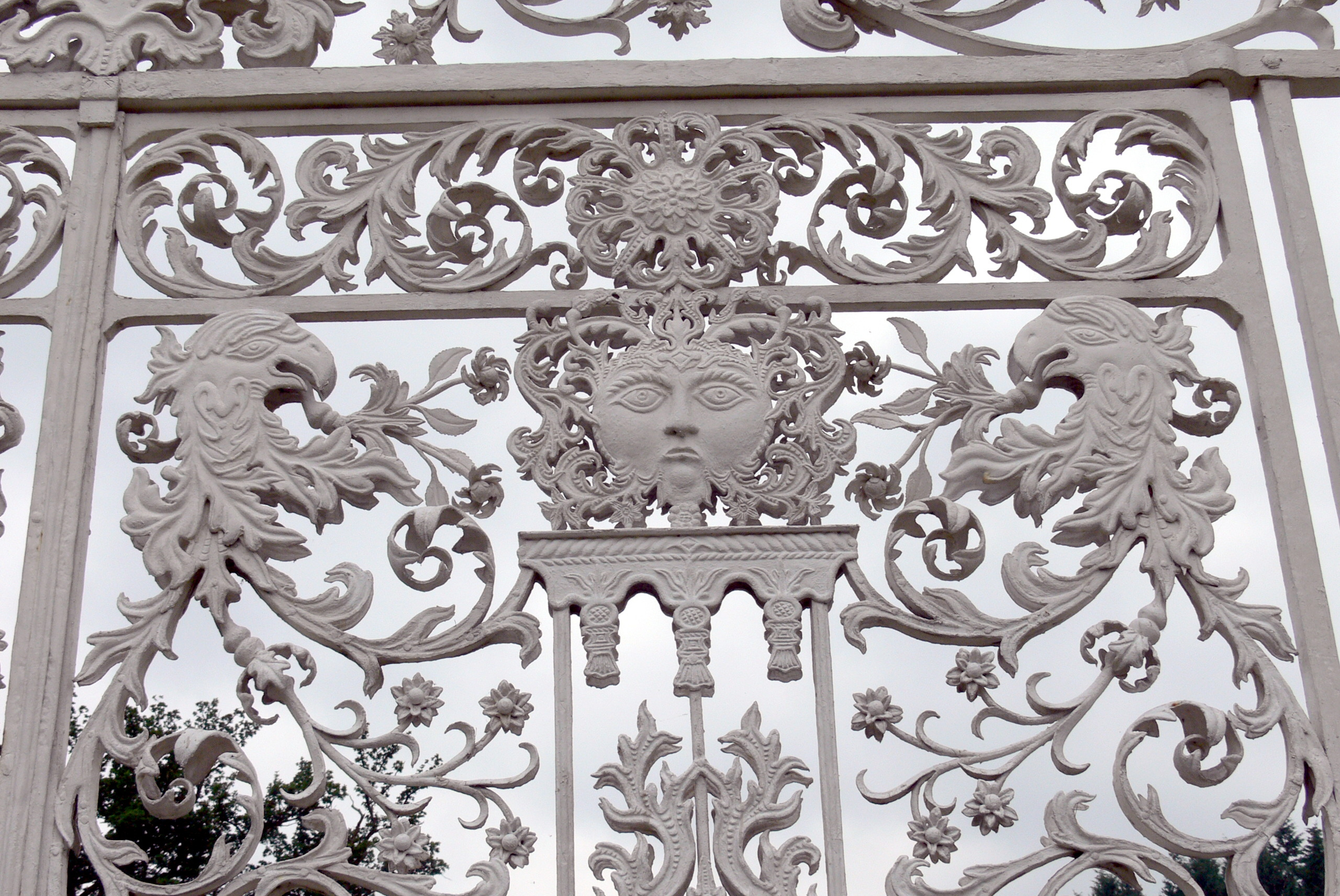 Chirk castle ( Wales ). Castle gate ( 1721 ): Green man.